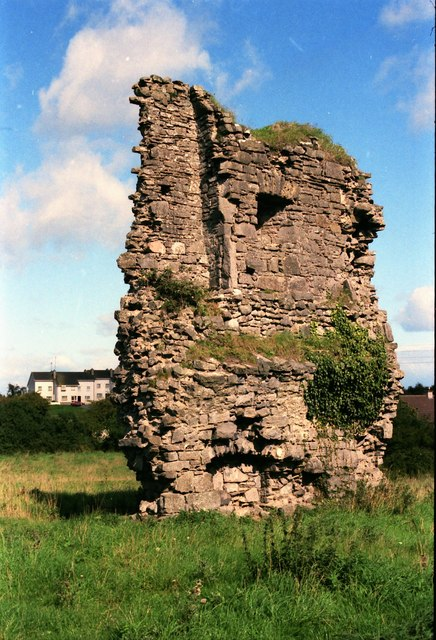 Castle at Donacarney, Co. Meath, near to Donacarney, Colp, Mornington and Baile an Bhiataigh, Meath, Ireland. Remains of late-medieval tower house. Described in the Civil Survey 1654-56 as 'an ould Castle'. Shown in this state on a map of 1771.